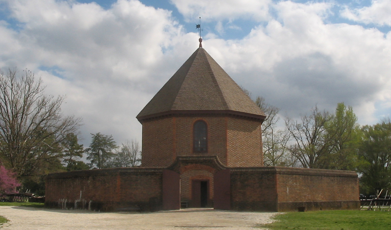 Williamsburg Historic District, Bounded by Francis, Waller, Nicholson, N. England, Lafayette, and Nassau Sts.